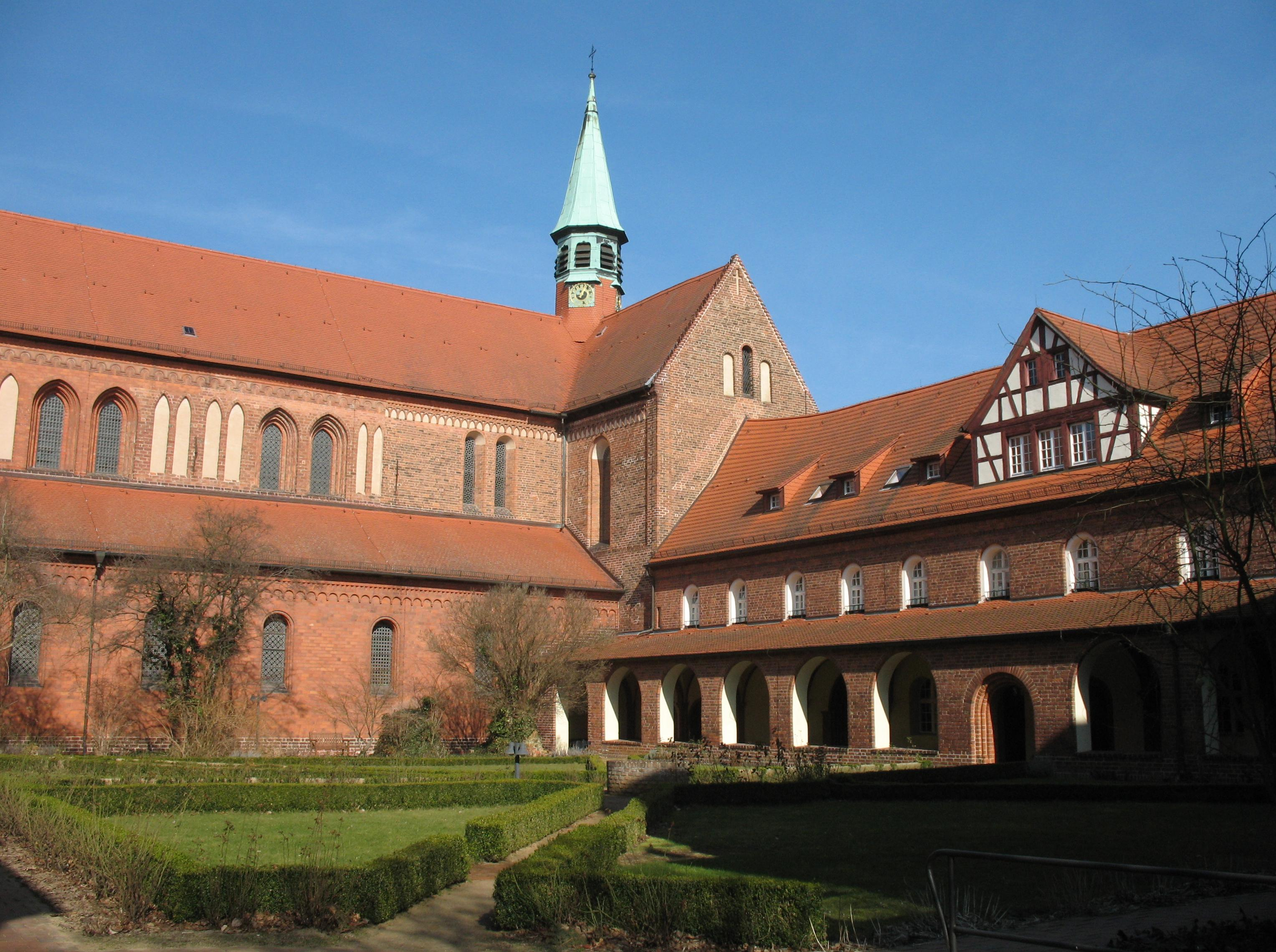 Cloister garden courtyard and St. Marien church (rear) — of the Kloster Lehnin (Lehnin Abbey). A German Brick Gothic era monastary in Landkreis Potsdam-Mittelmark, Brandenburg.